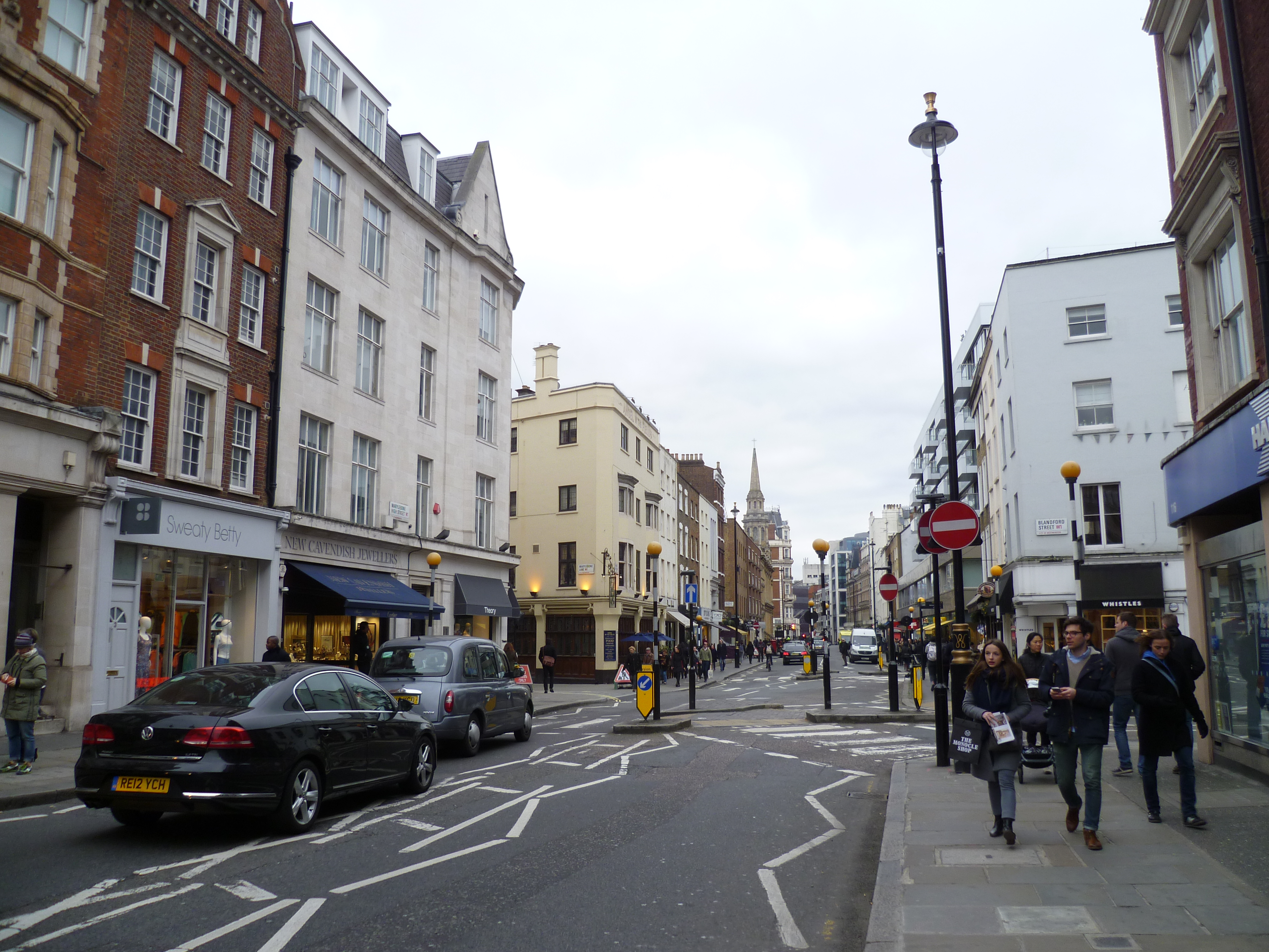 London